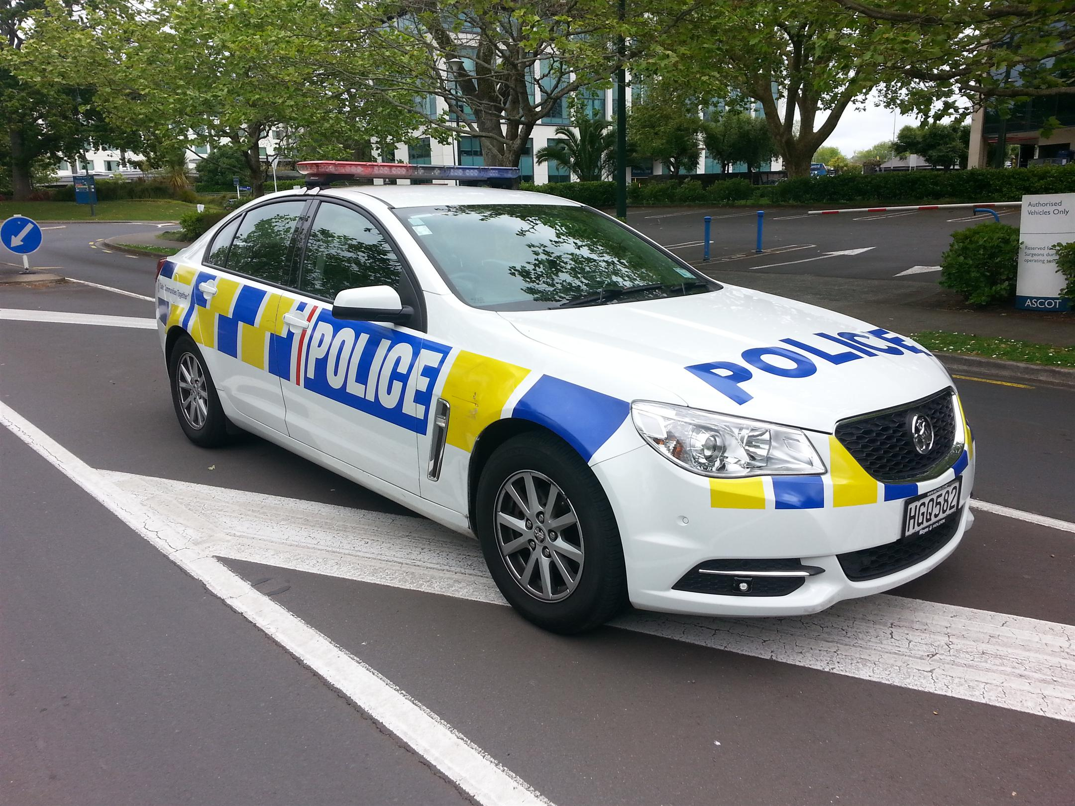 Holden Commodore VF Evoke currently being used by the New Zealand Police for General Duties, Delta (Dog) Patrols and Highway Patrol. The VE Commodore is now slowly being phased out as the VF SV6/Evoke replaced it in 2013 providing more engine capacity and more modern specifications than the VE.